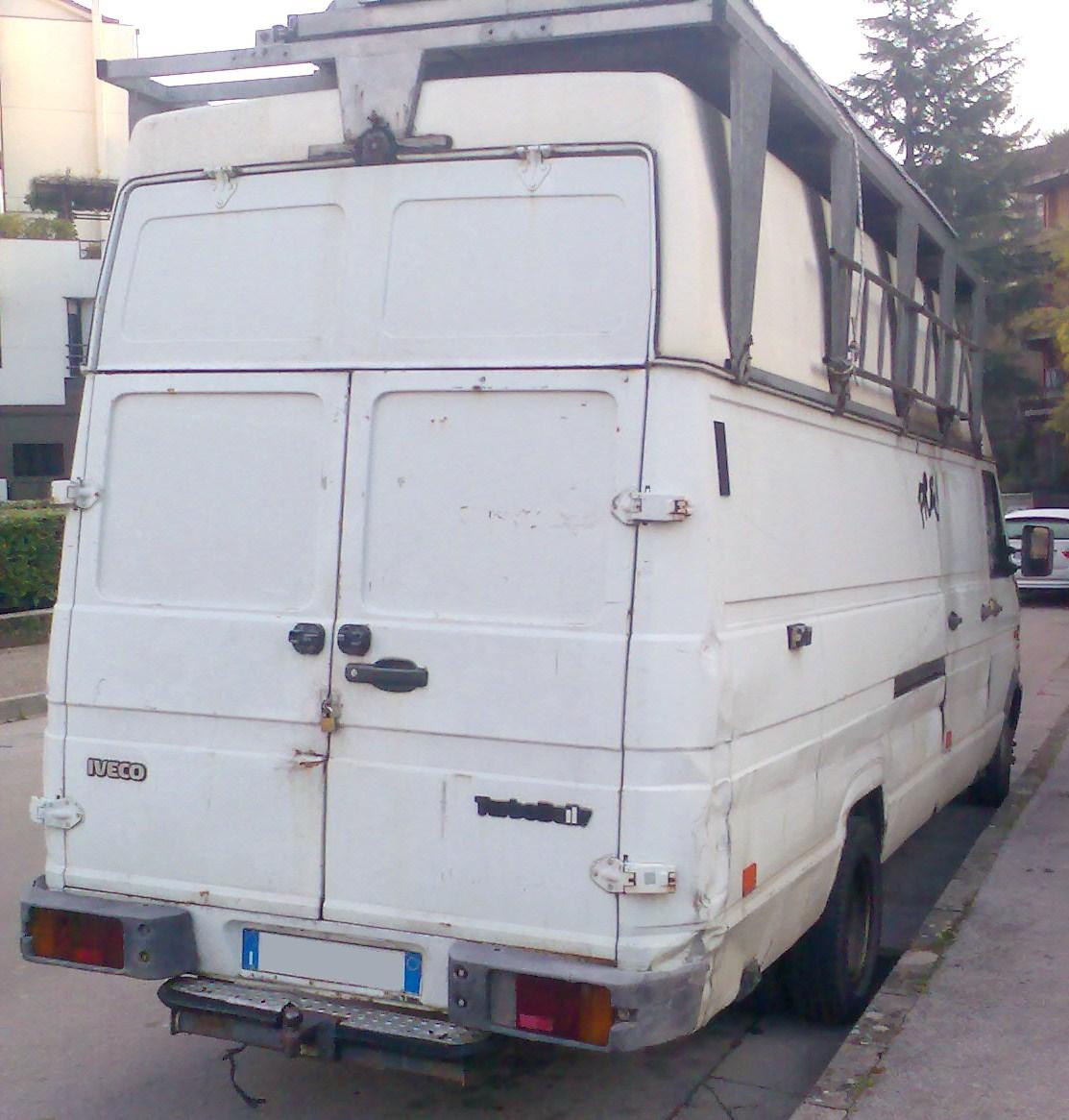 Iveco Turbo Daily